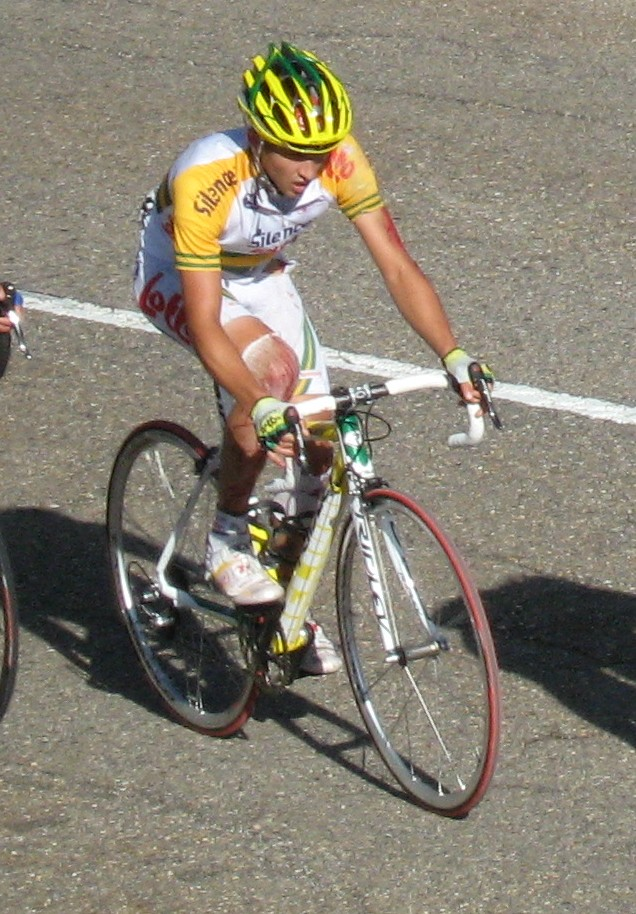 Matthew Lloyd, 2008 Vuelta a España, 8th stage, Port de la Bonaigua, Spain.